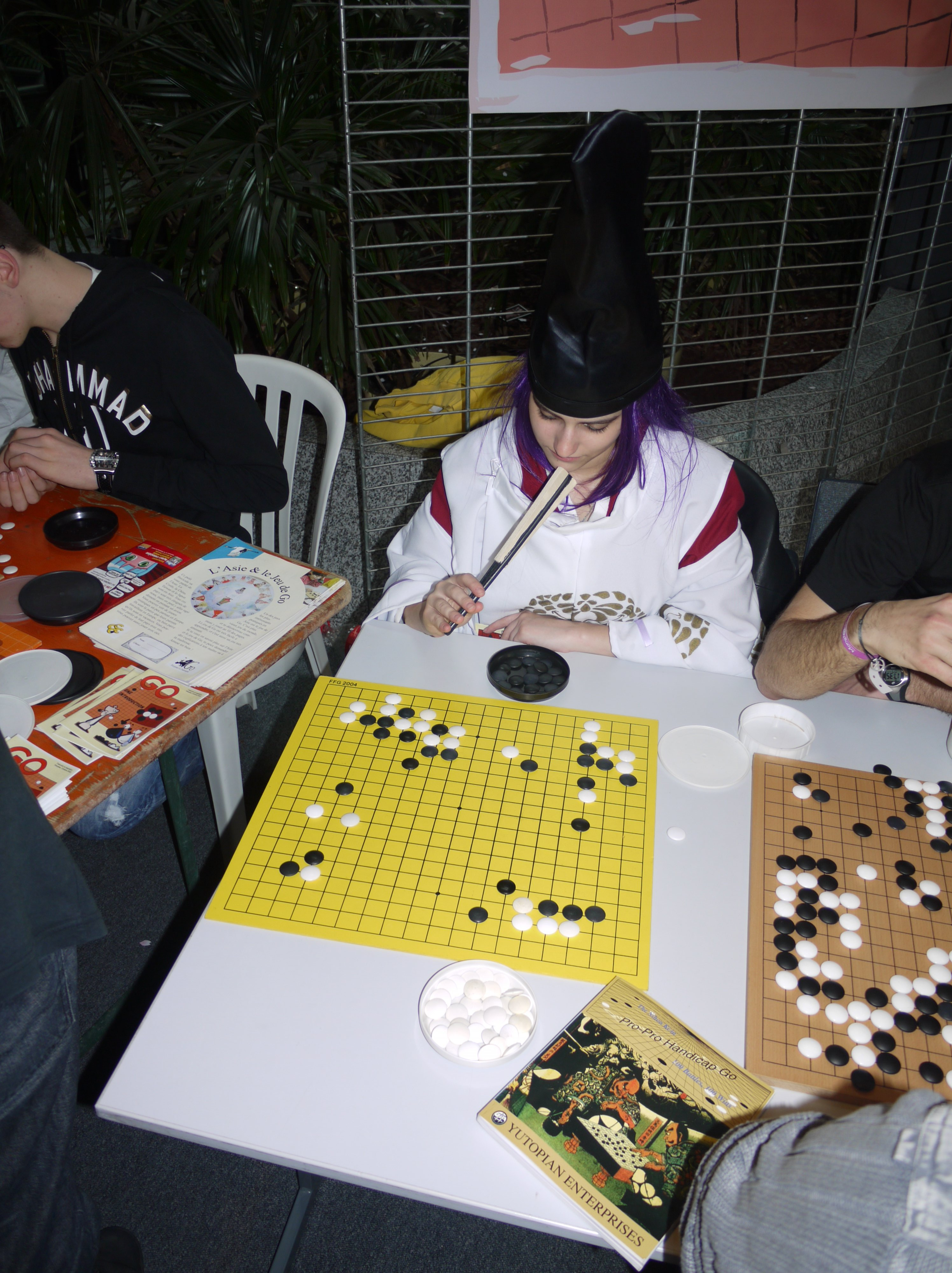 Mang'Azur festival of Toulon - official site